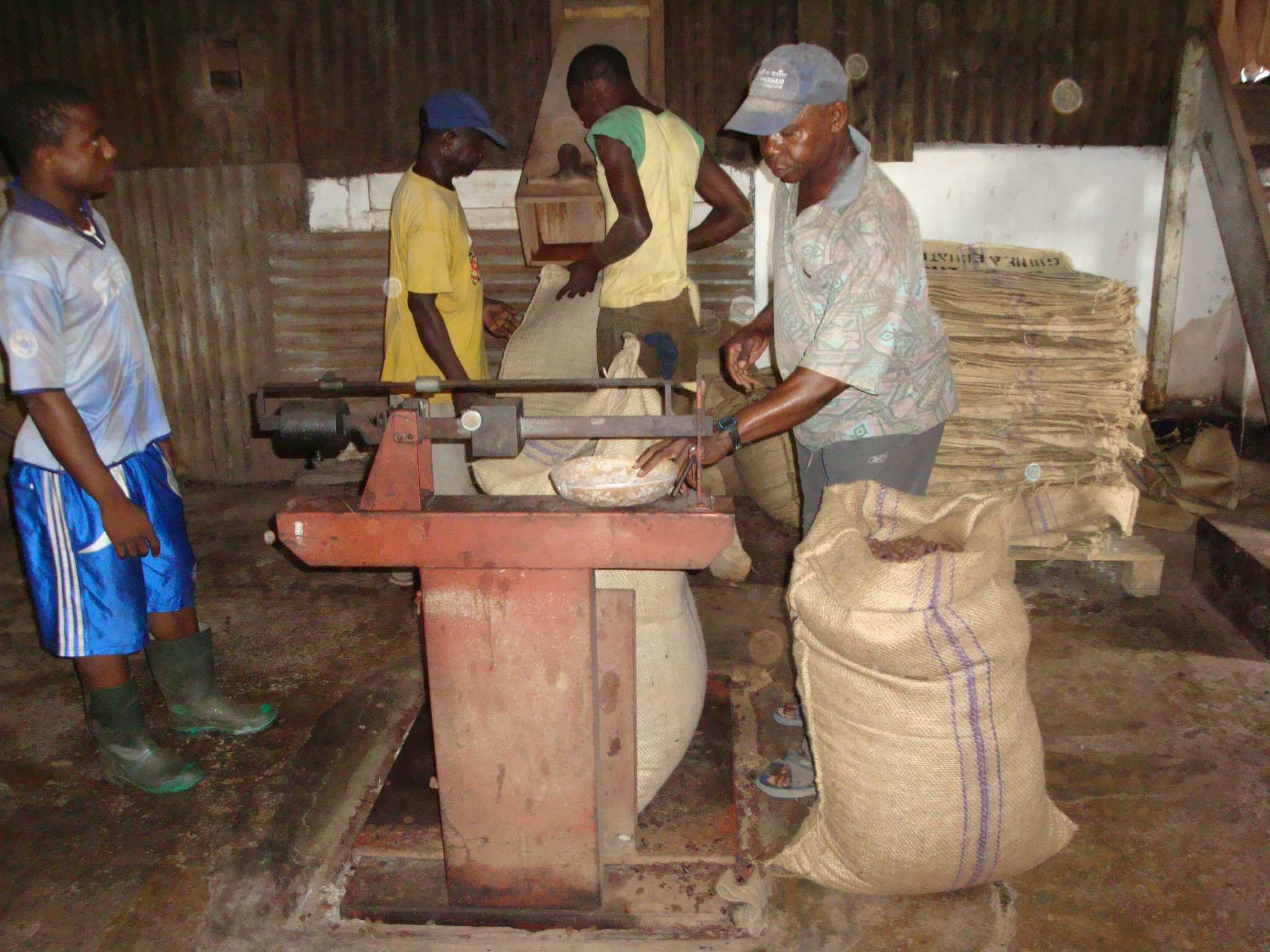 Dried cacao bags This is an image with the theme "Africa on the Move or Transport" from: Equatorial Guinea